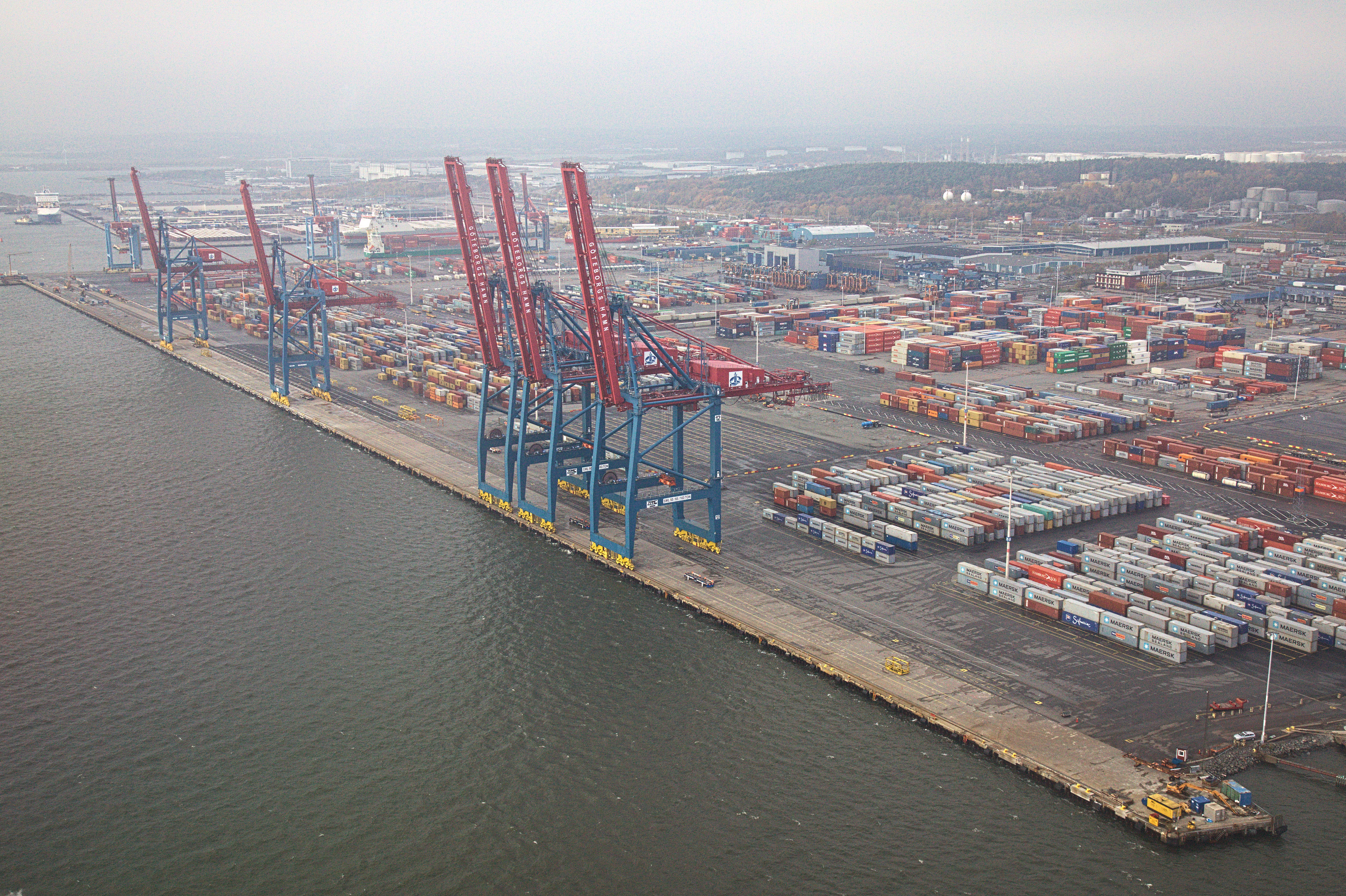 Photo taken on a helicopter over Gothenburg